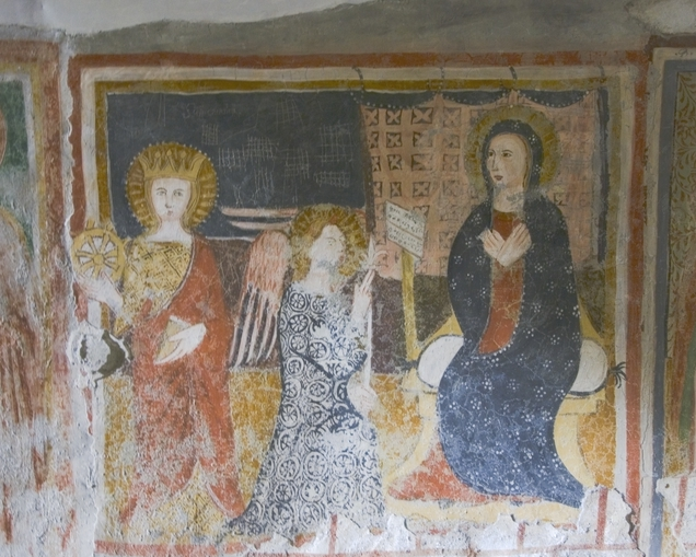 Fresco inside San Michele Arcangelo Church, Sermoneta, Lazio, Italy